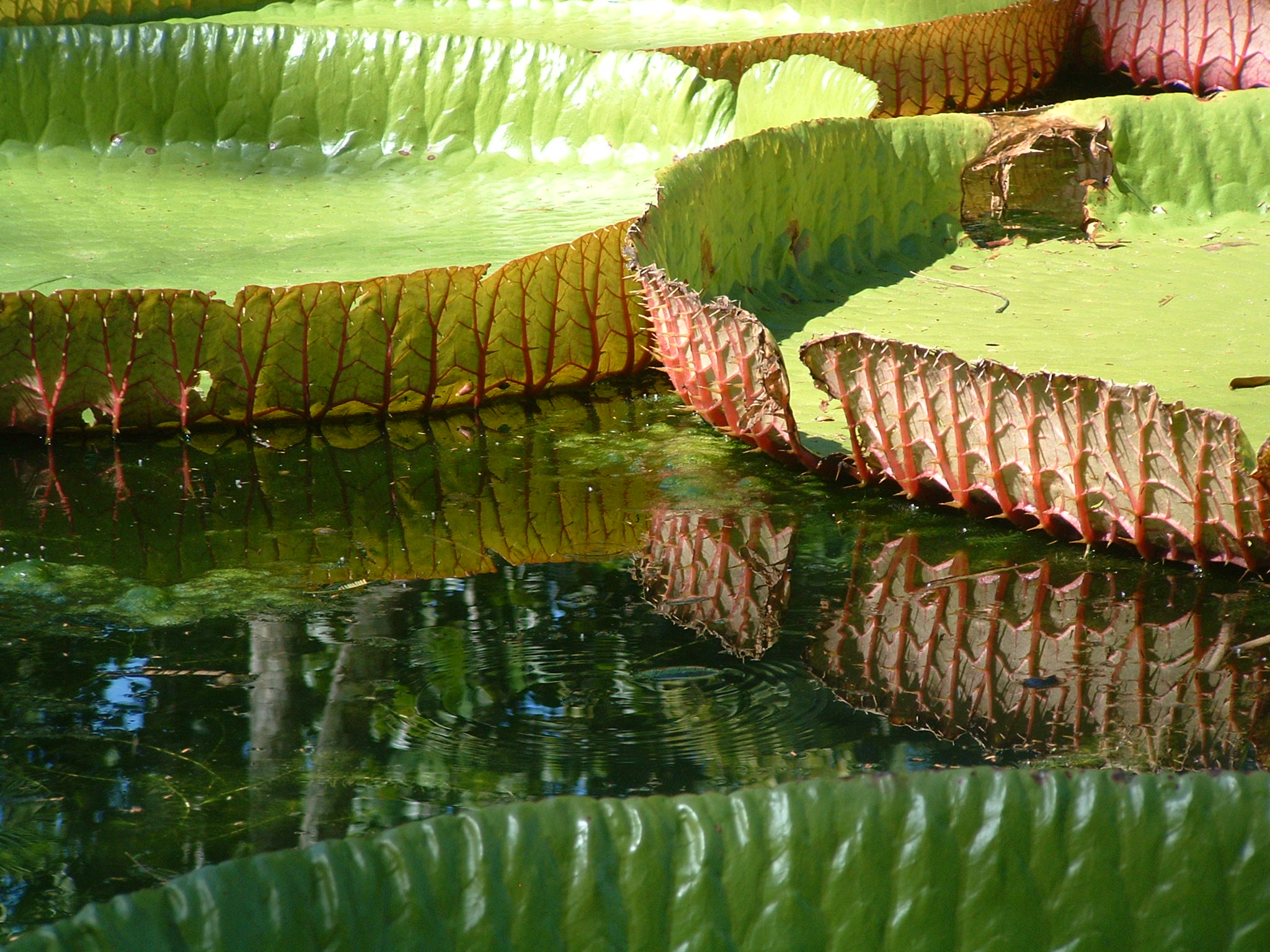 Victoria water lily Giant lily pad from the Citrus Fruit Garden (Jardin des Pamplemousses) in Mauritius. This is a botanical garden created in the 18th century which boasts exceptional tropical species. I took this photograph in February 2005. It has not been digitally altered.